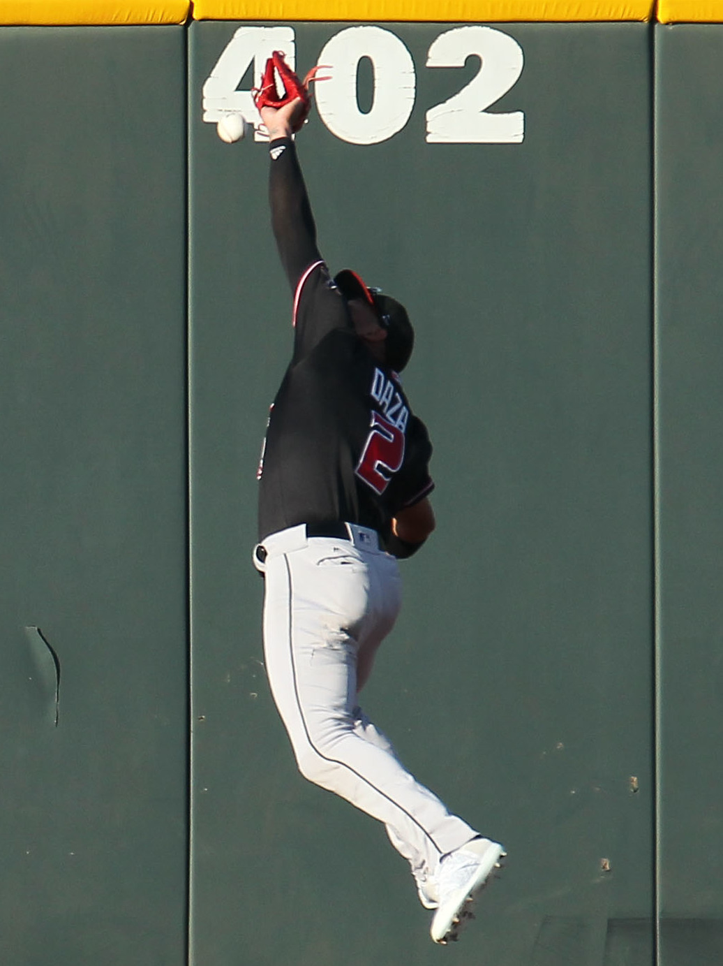 Yonathan Daza of the Albuquerque Isotopes leaps at the wall during a 2019 game at Werner Park in Nebraska.